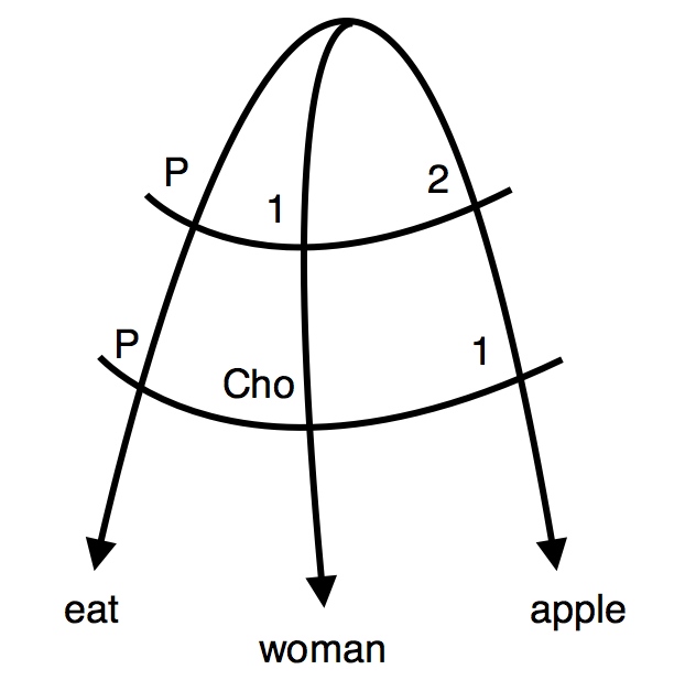 A stratum diagram of a passive clause in English on the basis of the relational grammar.